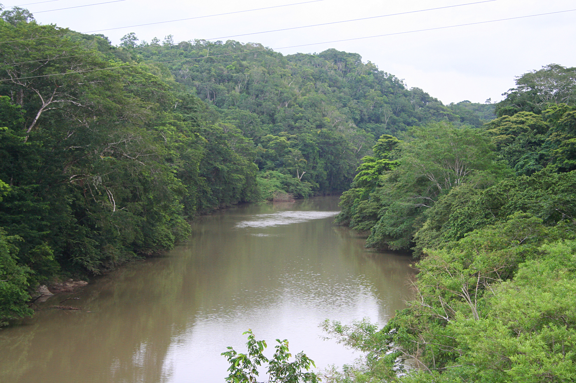 Mopan river near San Ignacio, Belize.